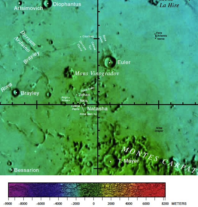 Part of the USGS Near side lunar chart used for the presentation